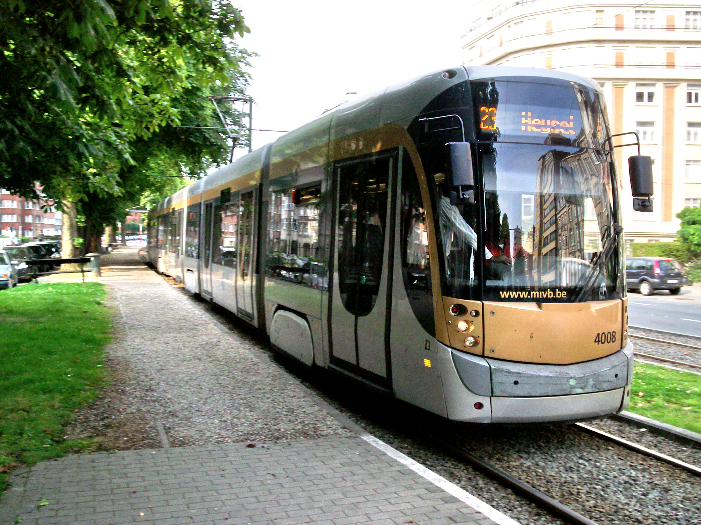 Second T4000 on the line 23 arriving at Petillon on direction to Heysel